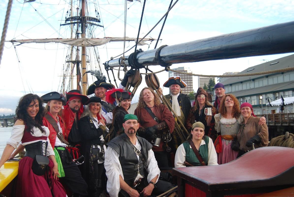 Seattle Knights as Pirates of the Puget Sound on The Lady Washington (recently portrayed the HMS Interceptor in the film Pirates of the Caribbean: The Curse of the Black Pearl) in Tacoma Washington